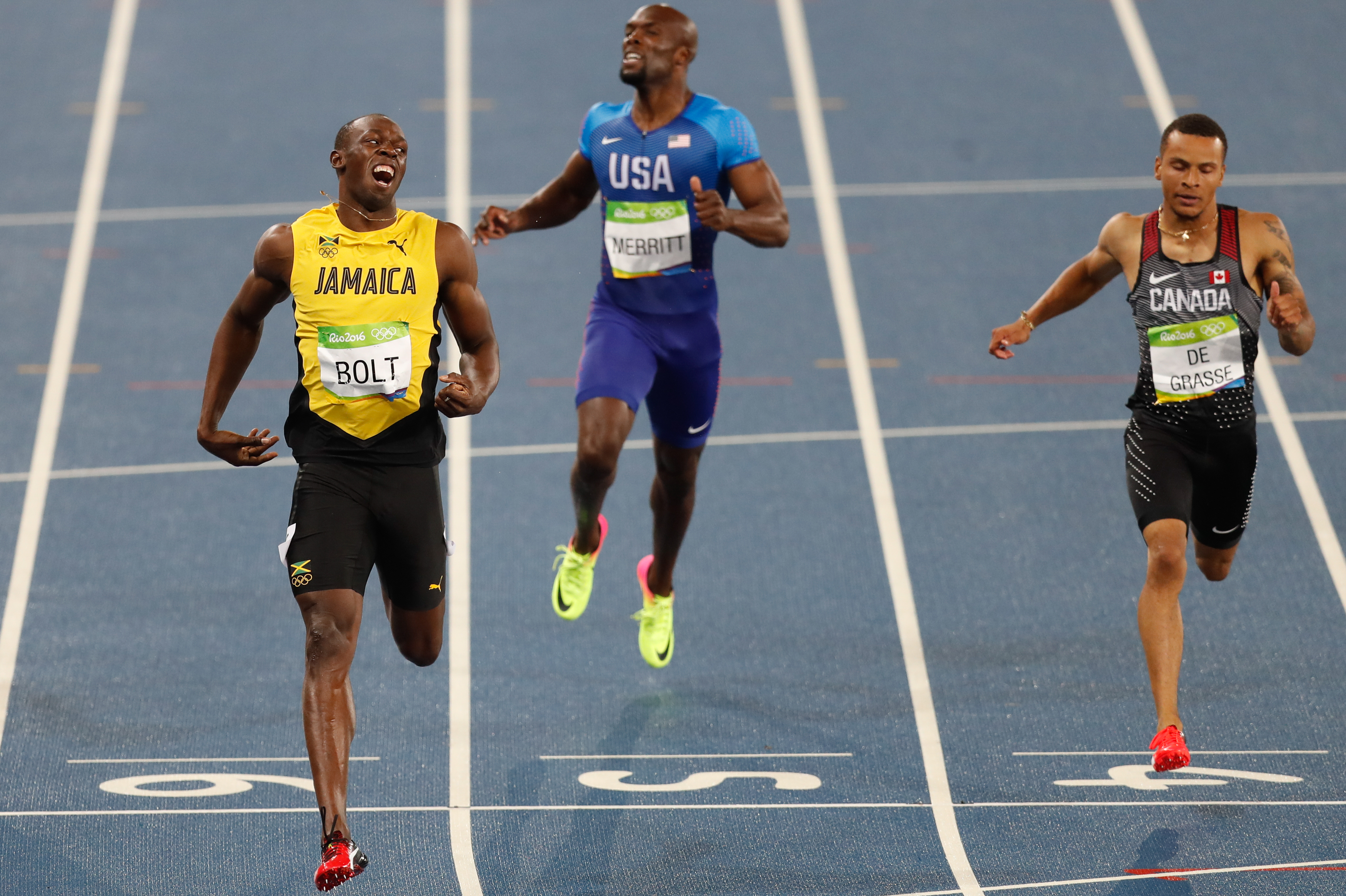 Rio de Janeiro - O Jamaicano Usain Bolt vence prova dos 200m rasos do atletismo e leva medalha de ouro nos Jogos Rio 2016, no Estádio Olímpico (Fernando Frazão/Agência Brasil)